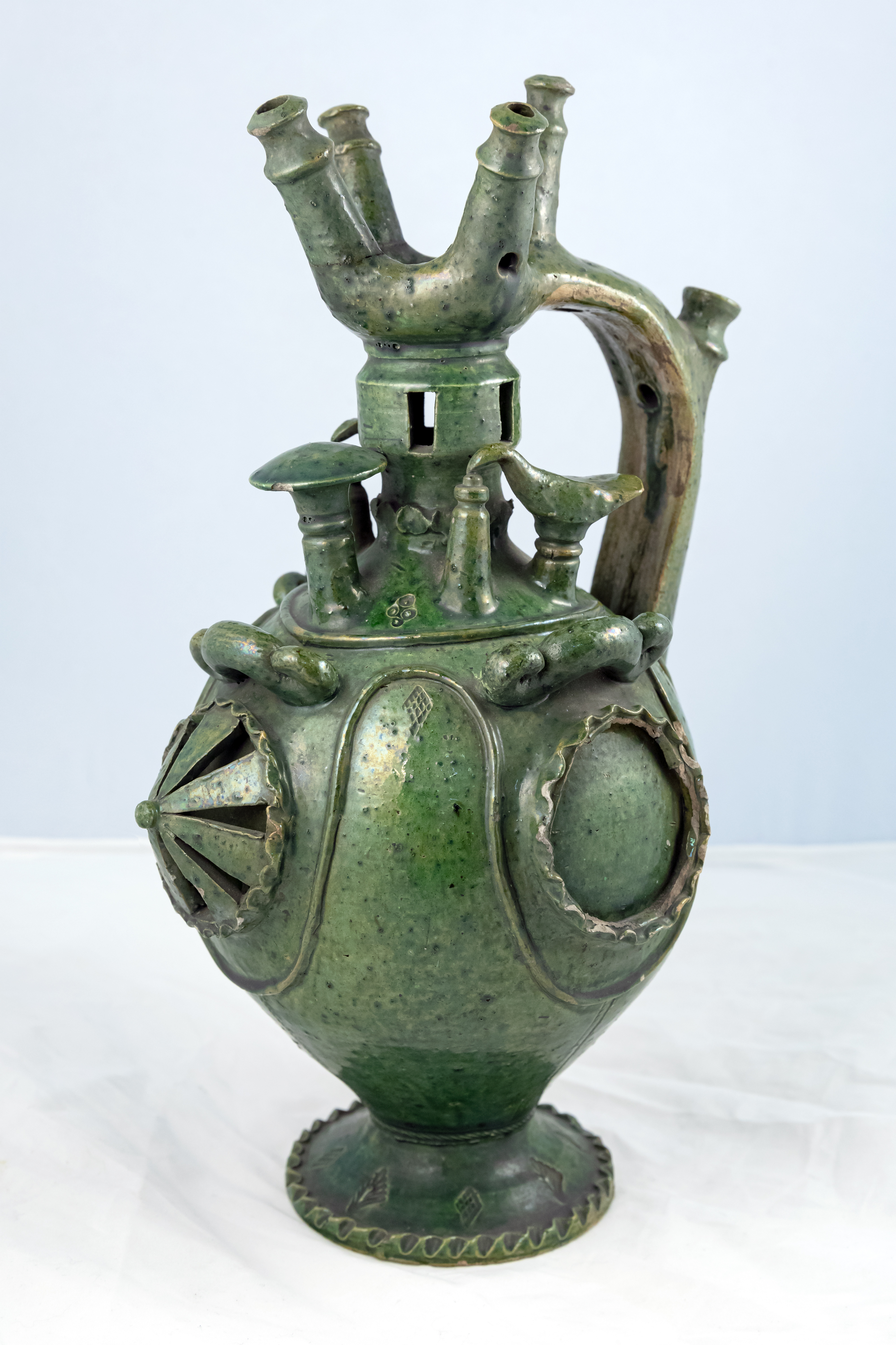 Puzzle jug from Bosnia, 19th century. Austrian Museum of Folk Life and Folk Art in Vienna, Austria.